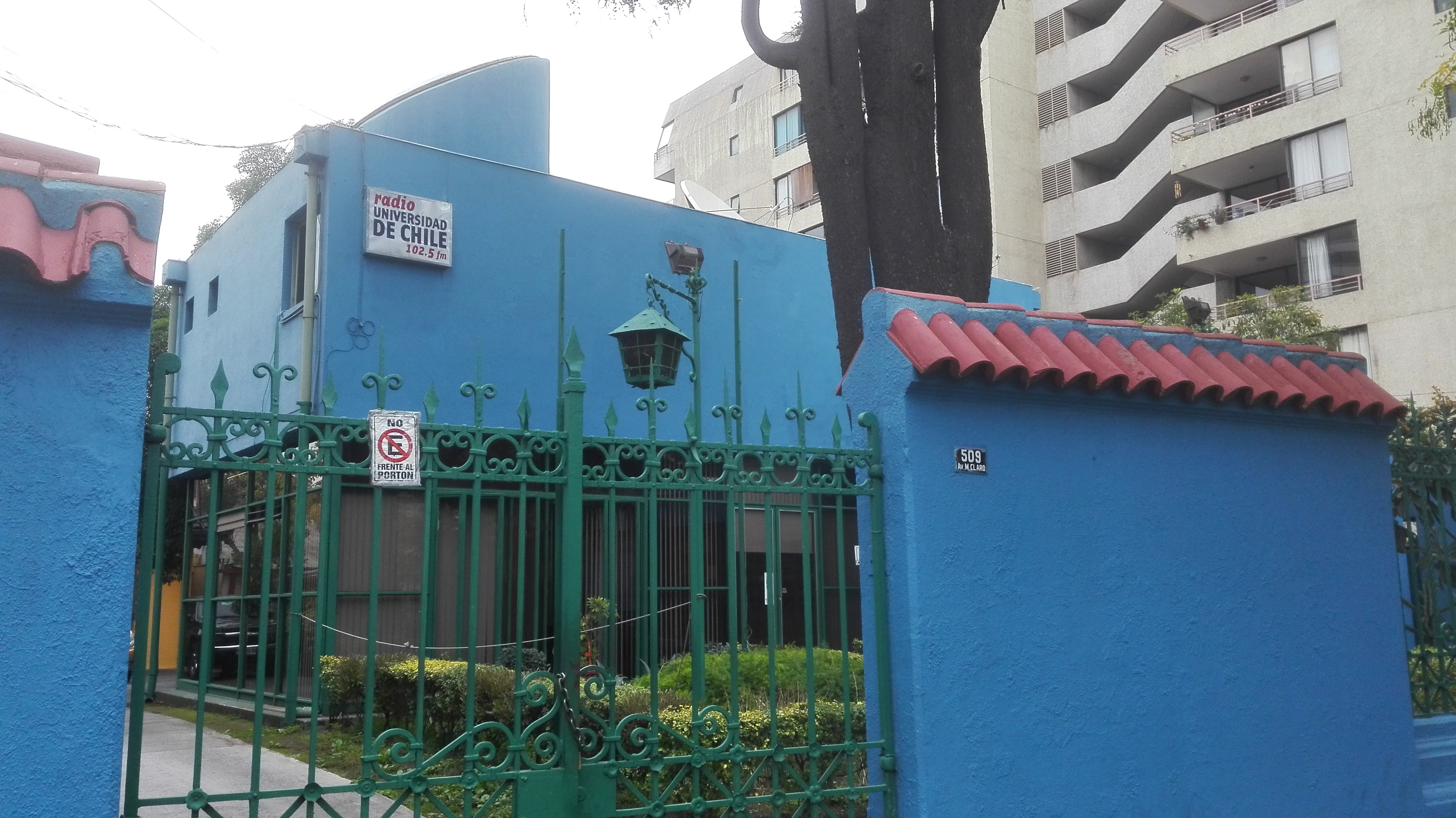 Estudios de la Radio Universidad de Chile en Providencia, Santiago.